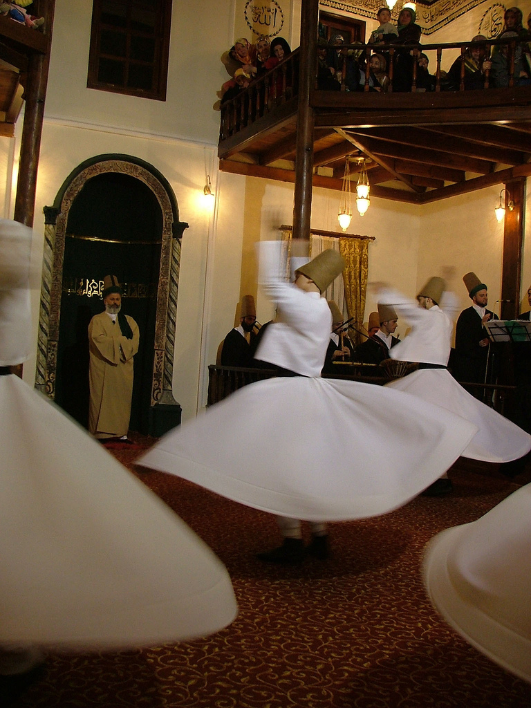 Whirling Dervishes